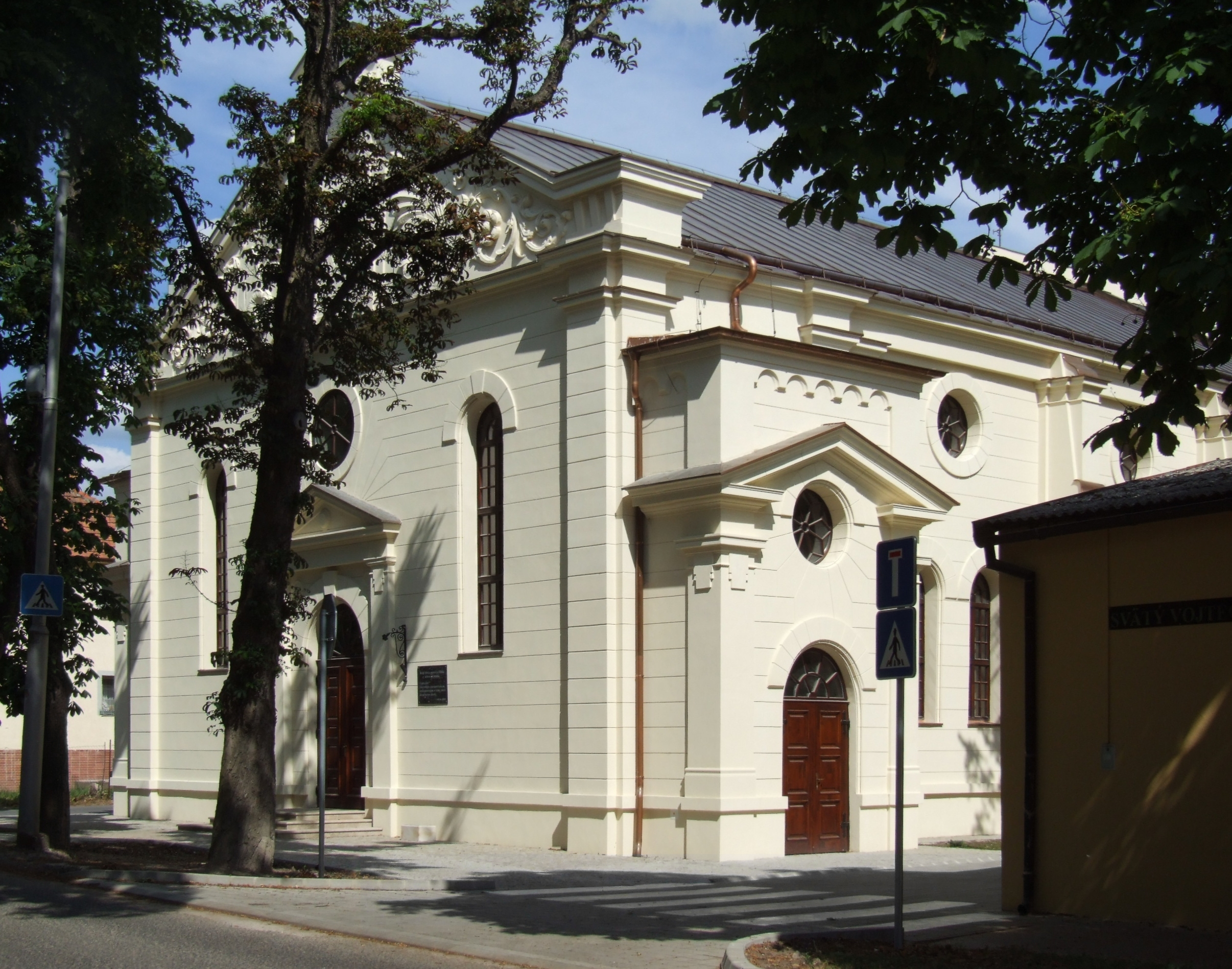 Synagogue in Levice This medium shows the protected monument with the number 402-2281/0 in the Slovak Republic.